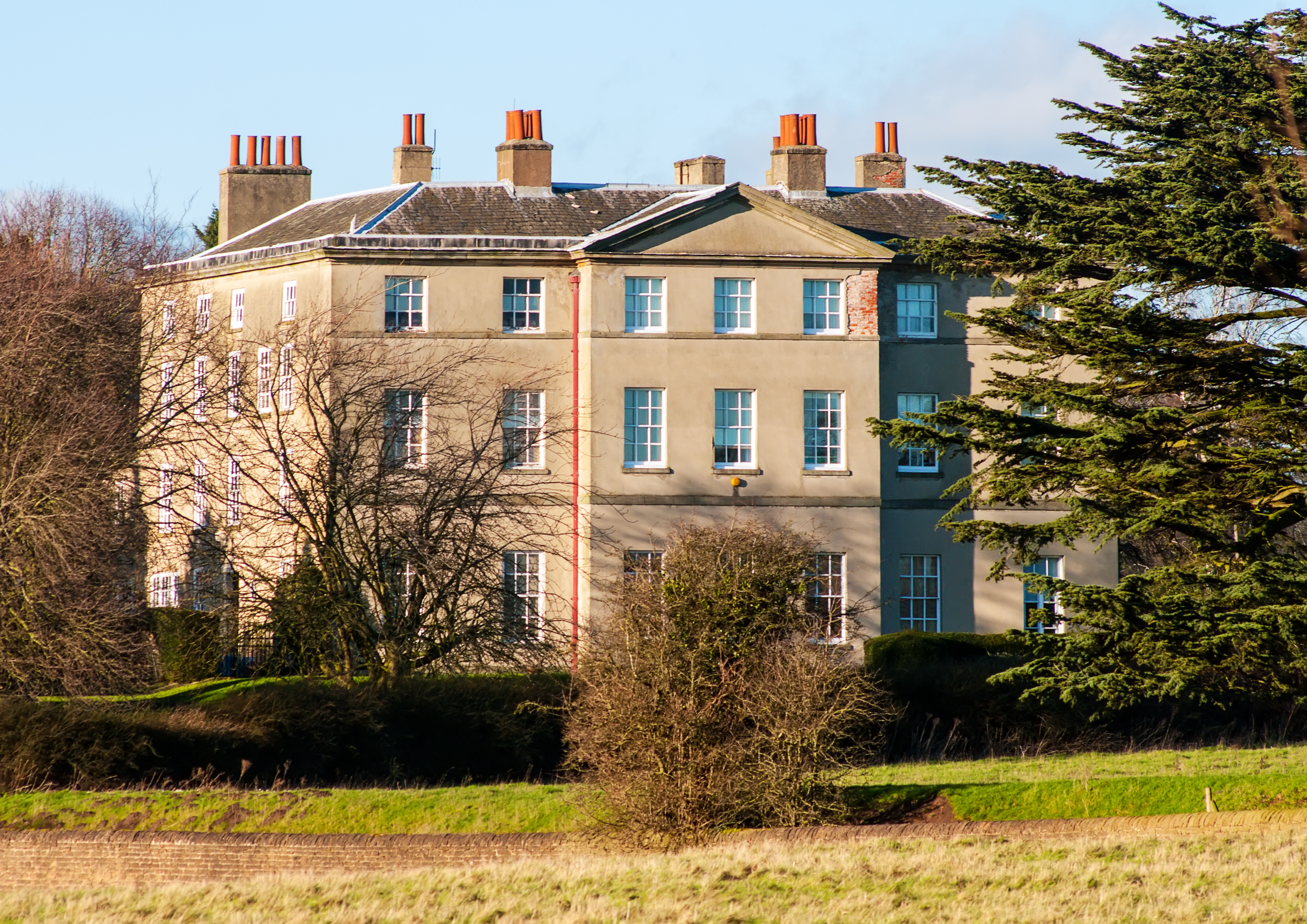 Strelley Hall Wikidata has entry Q26540452 with data related to this item. Former stately home, now offices